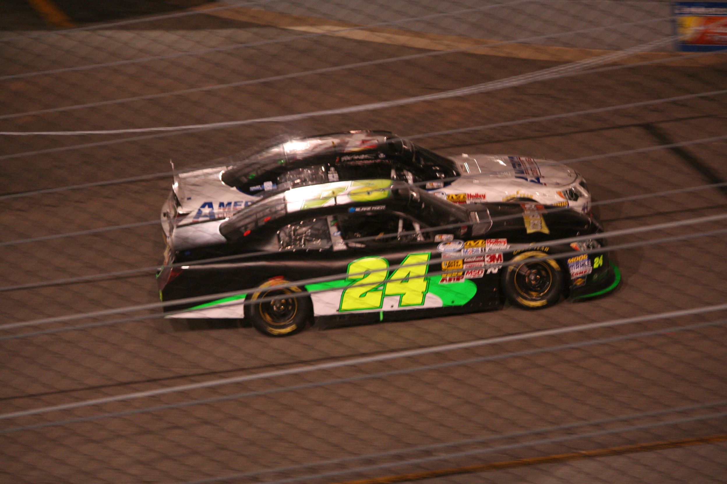 Blake Koch (No. 24) races Hal Martin (No. 44) during the 2013 ToyotaCare 250 at Richmond International Raceway.